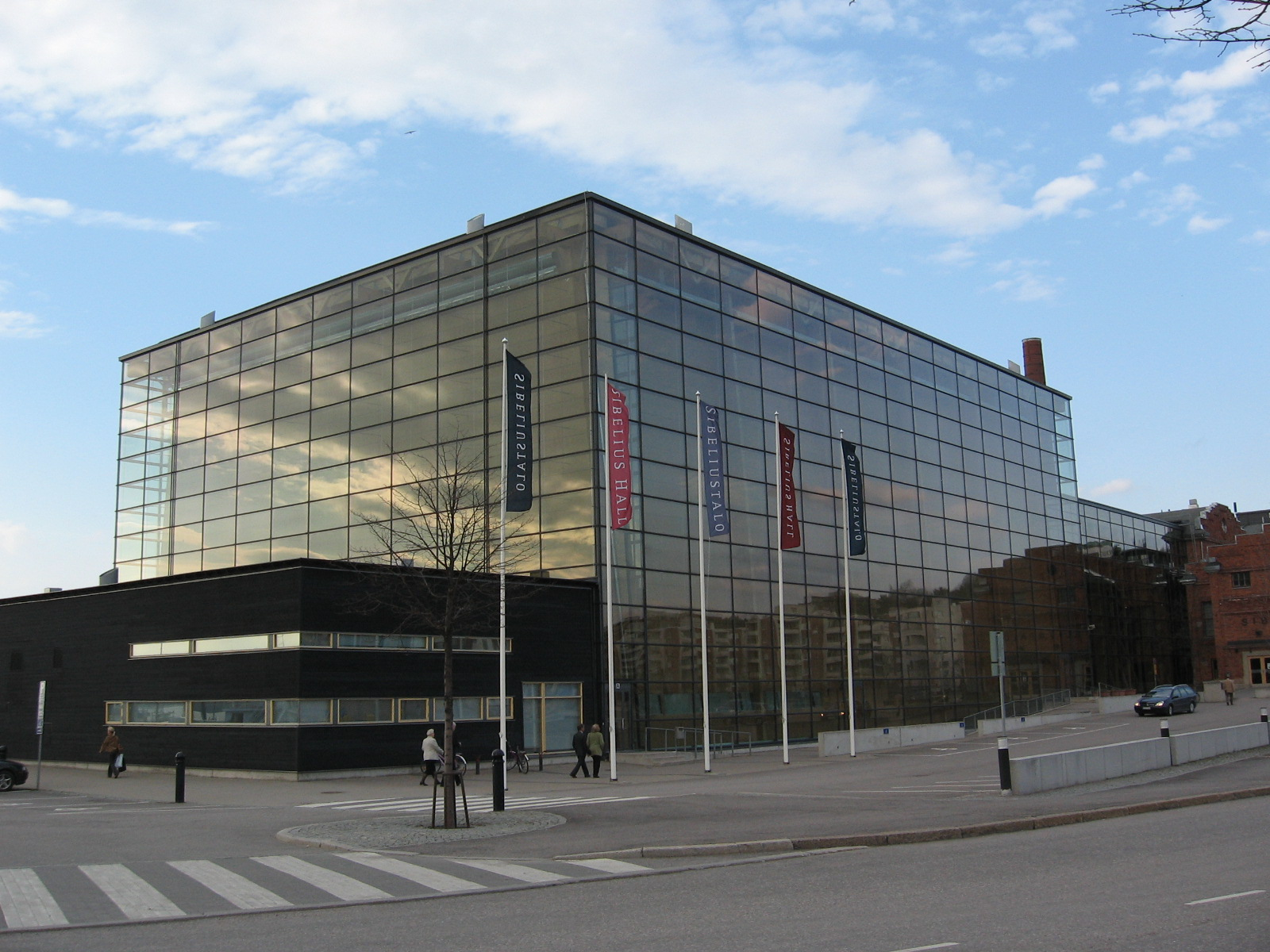 Sibelius hall Congress & Concert Center in Lahti, Finland